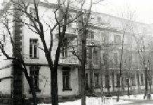 Template:YSLU